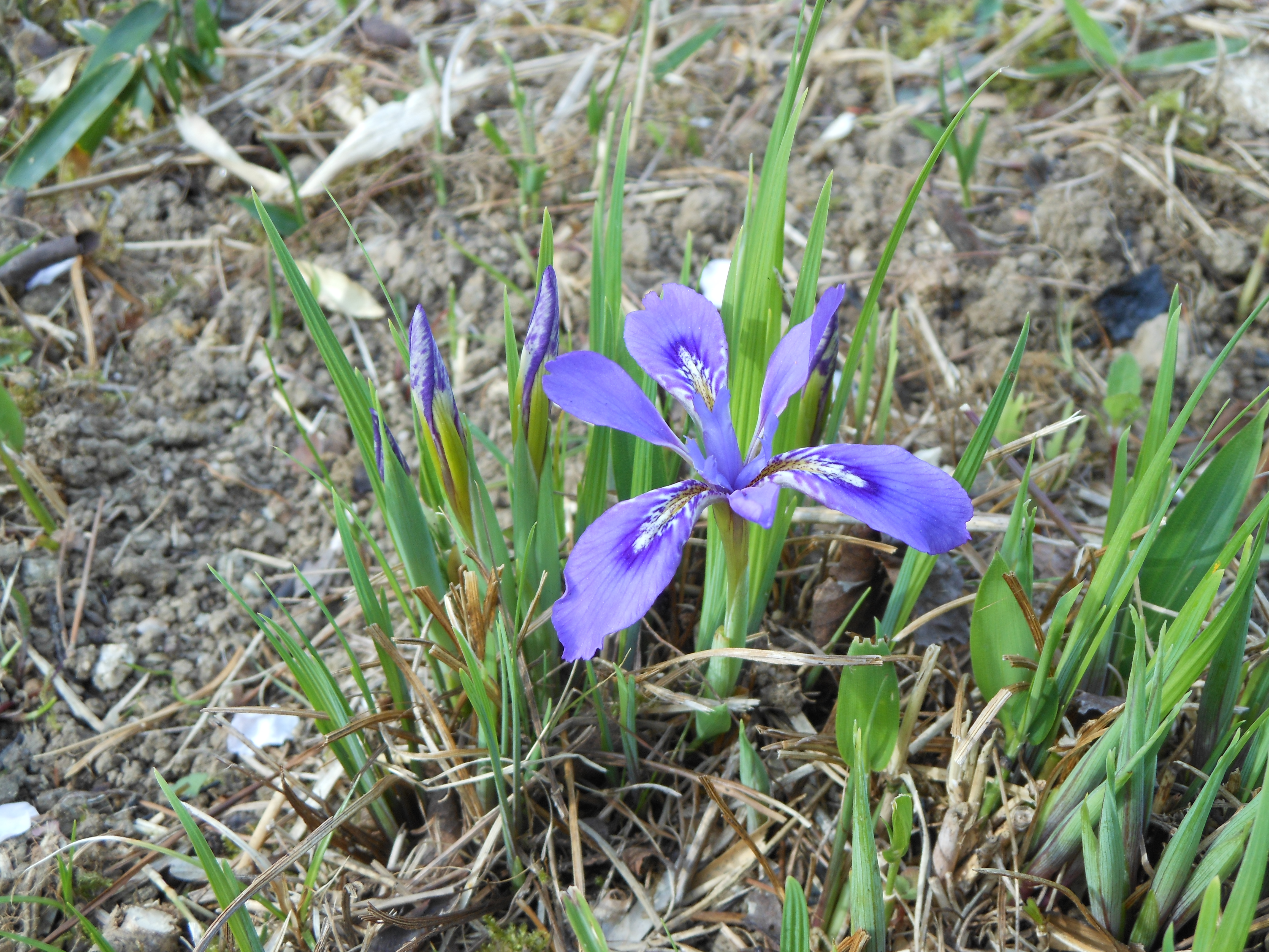 A flower and buds of Iris rossii Baker, at natural habitat in Kuboizumi, Saga City.